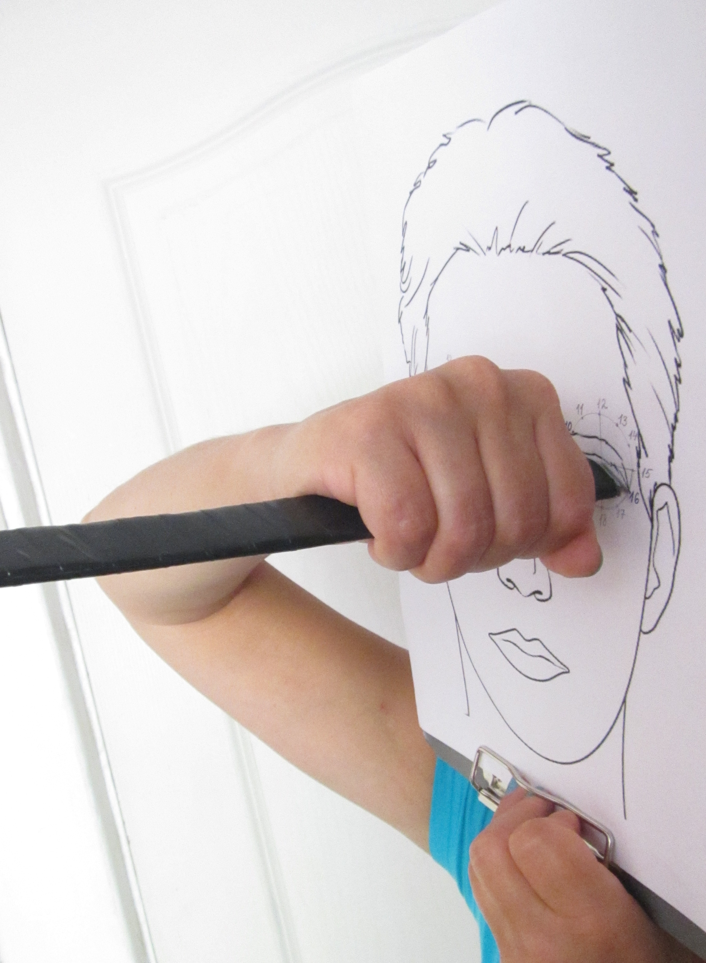 Под левой бровью, внешняя треть, положение 10-16 часов, длина 1,5 см